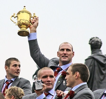 Cropped image of England rugby celebrations. Lawrence Dallaglio.